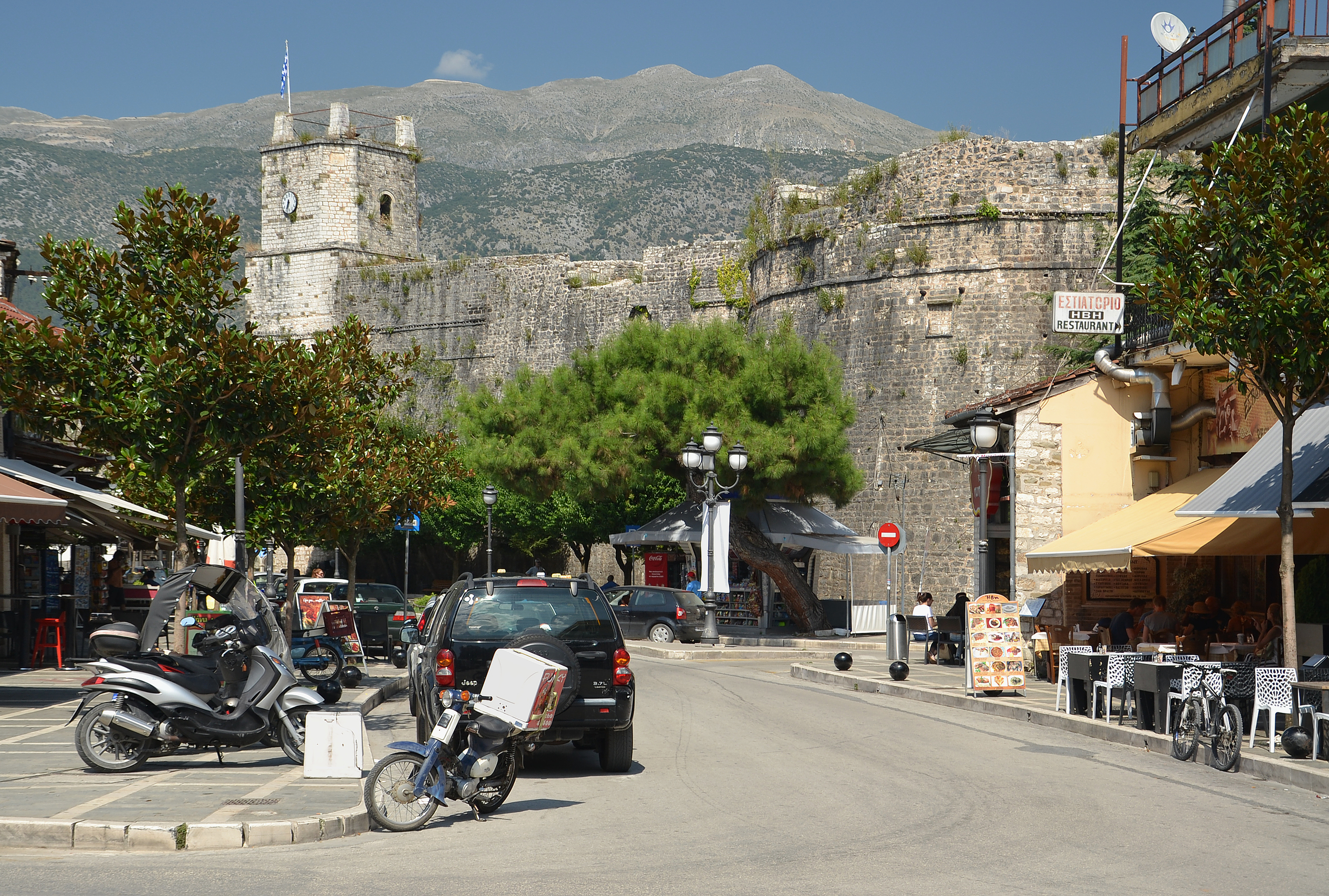 Ioannina Castle, Greece